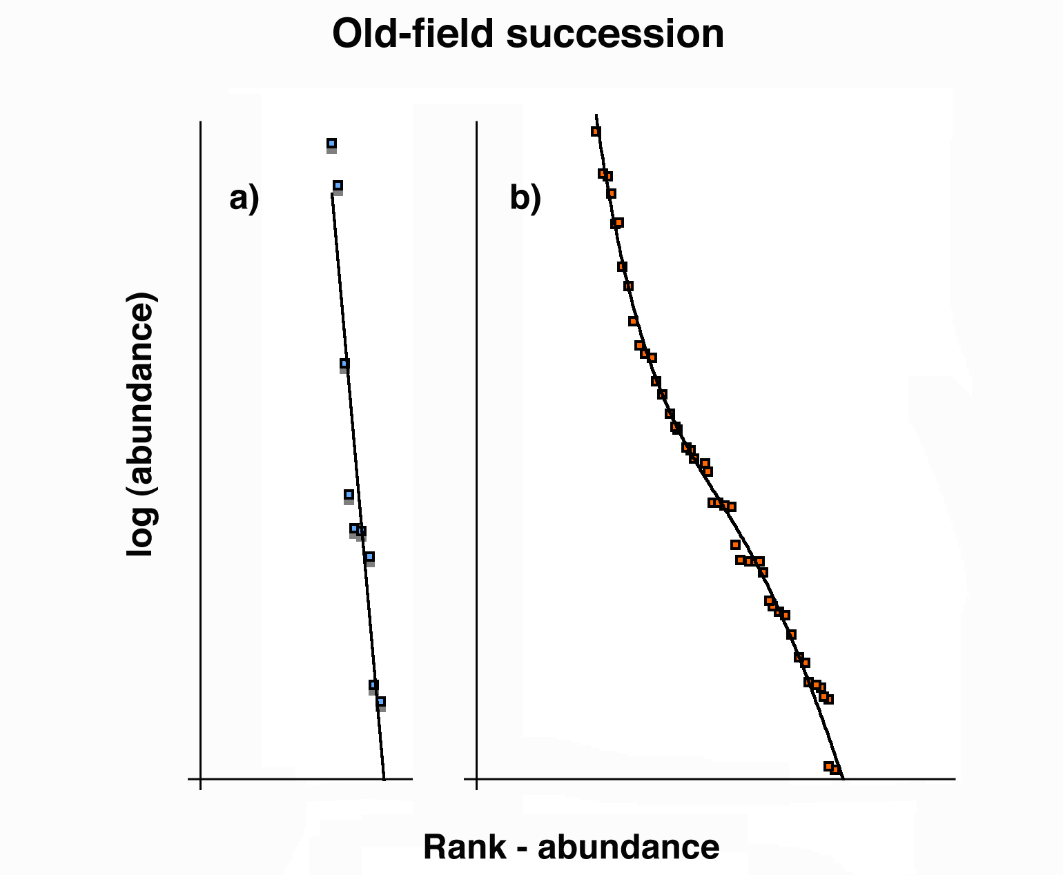 Plant succession in abandoned fields within Brookhaven National Laboratory, NY. Early succession (blue (a)) shows a few herbaceous species with two strongly dominant. The abundance distribution conforms to Motomura's geometric model. At a later herbaceous stage (red (b)) species diversity increases as more species colonize the field and the abundance distribution of the community approaches lognormal (modified from Whittaker 1972)